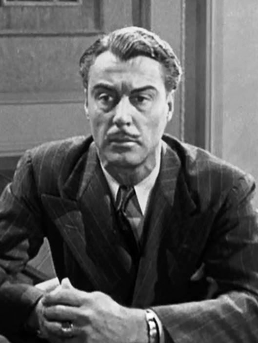 Low resolution screenshot of Tristram Coffin as Treasury agent Scott Pearson from the American film Dangerous Money (1946). This film is in the public domain due to the omission of a valid copyright notice on its original prints.